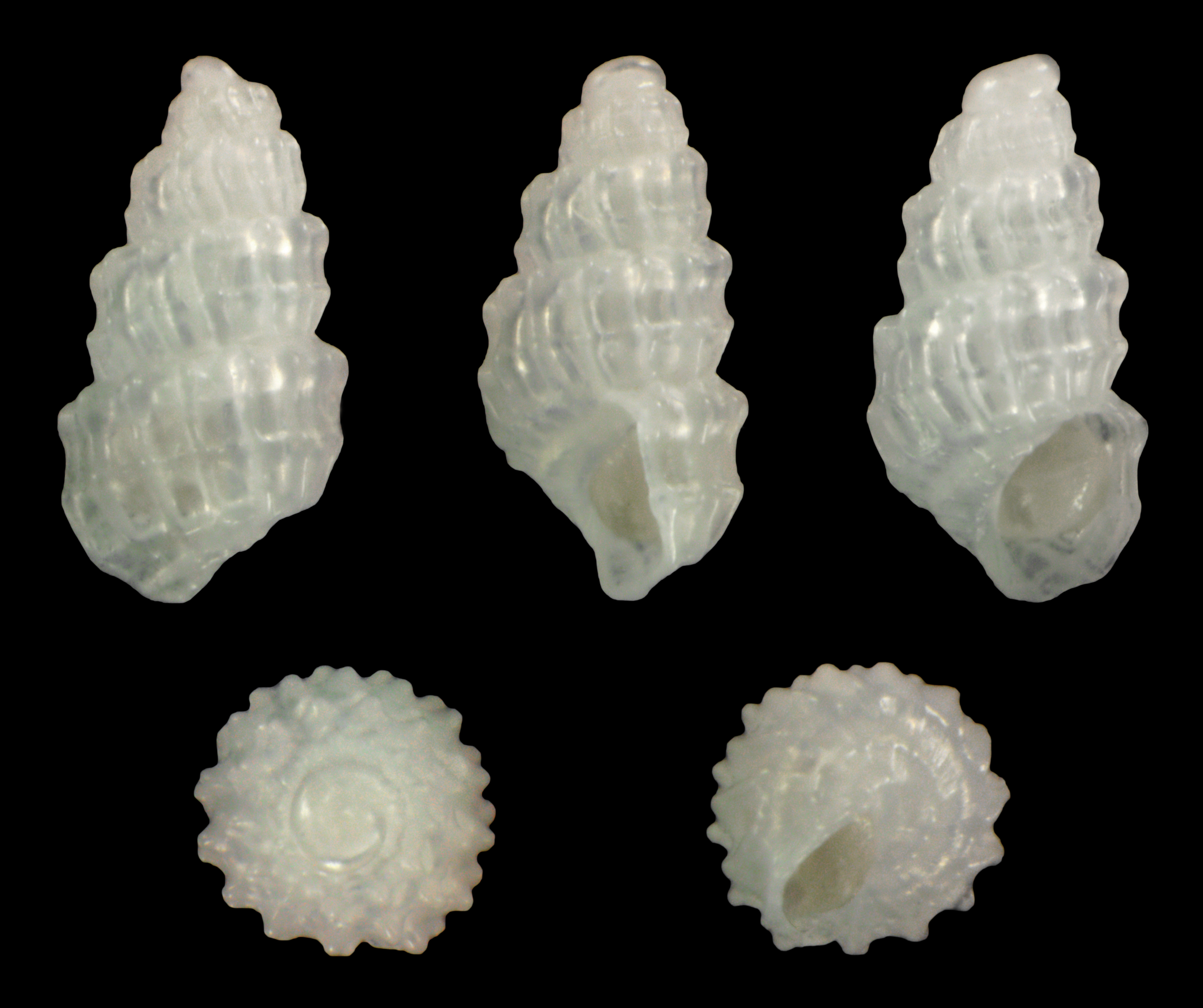 Folinella excavata (Phillippi, 1836), Length 0.15 cm; Originating from Mallorca, Spain; Shell of own collection, therefore not geocoded.